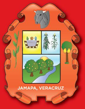 Escudo de Jamapa